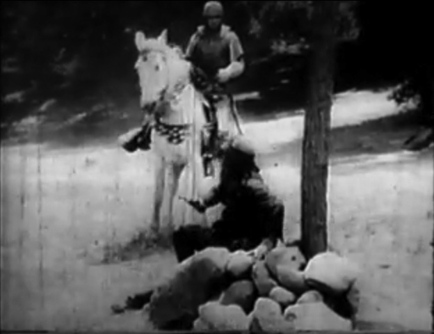 Still from the 1914 silent film The Oubliette (directed by Charles Giblyn) depicting Chevalier Philip de Soisson (played by Millard K. Wilson) confronting Francois Villon (played by Murdock MacQuarrie)